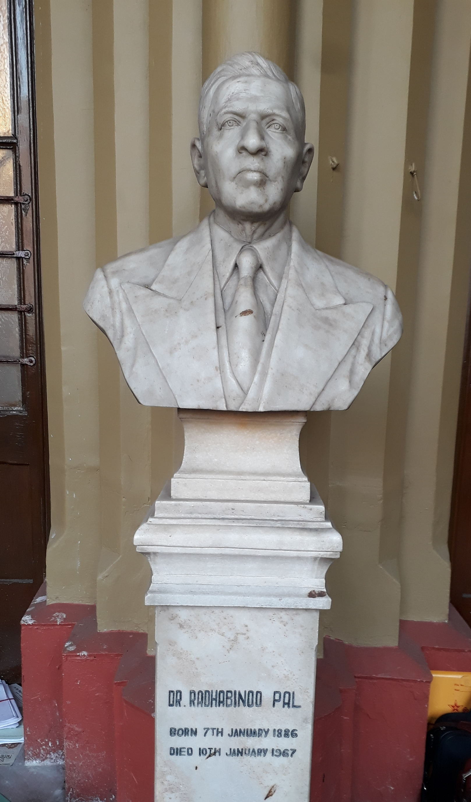 Statue of Radhabinod Pal in Kolkata High Court, West Bengal